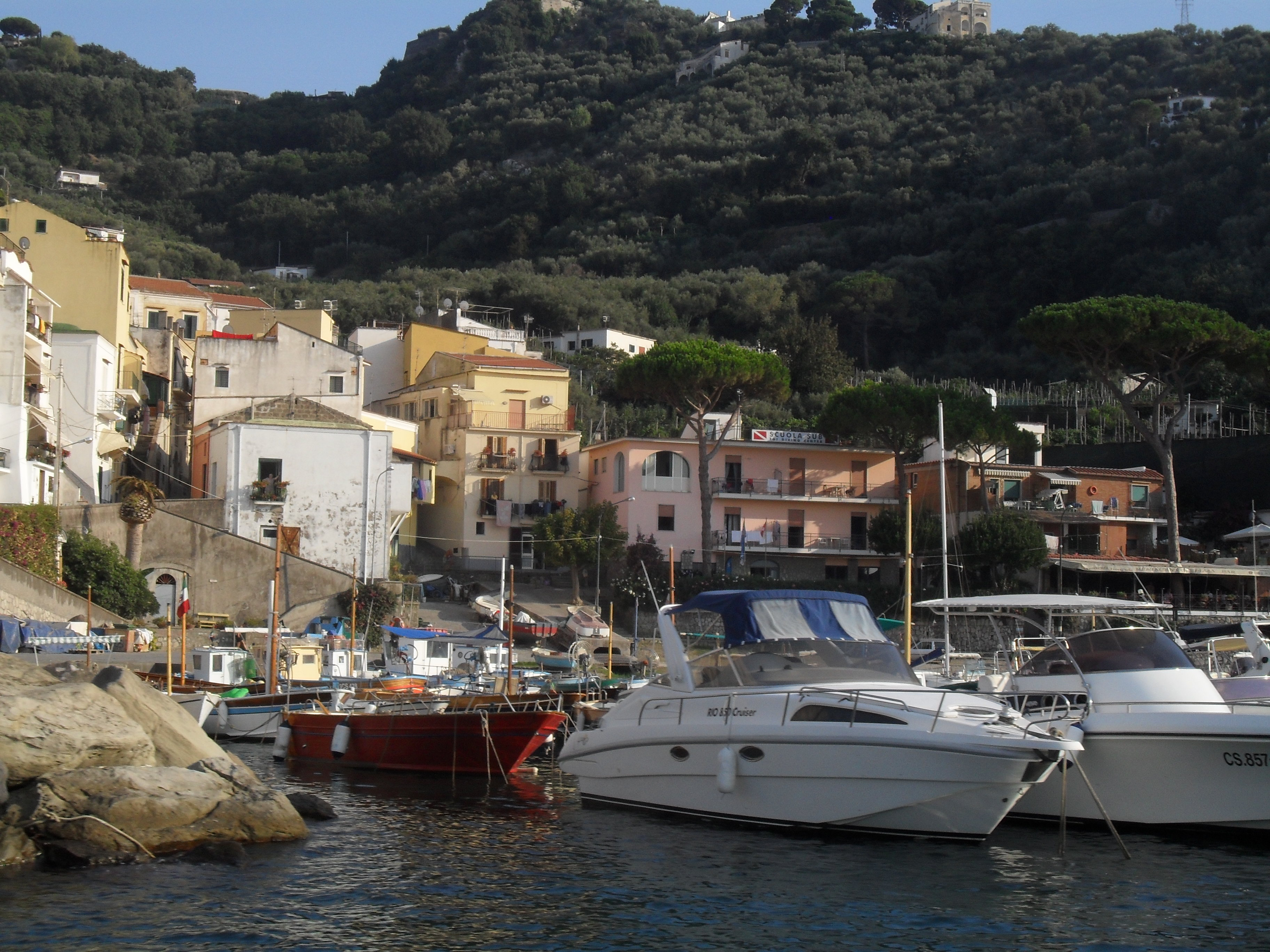 A view from the sea of Marina della Lobra in Massa Lubrense